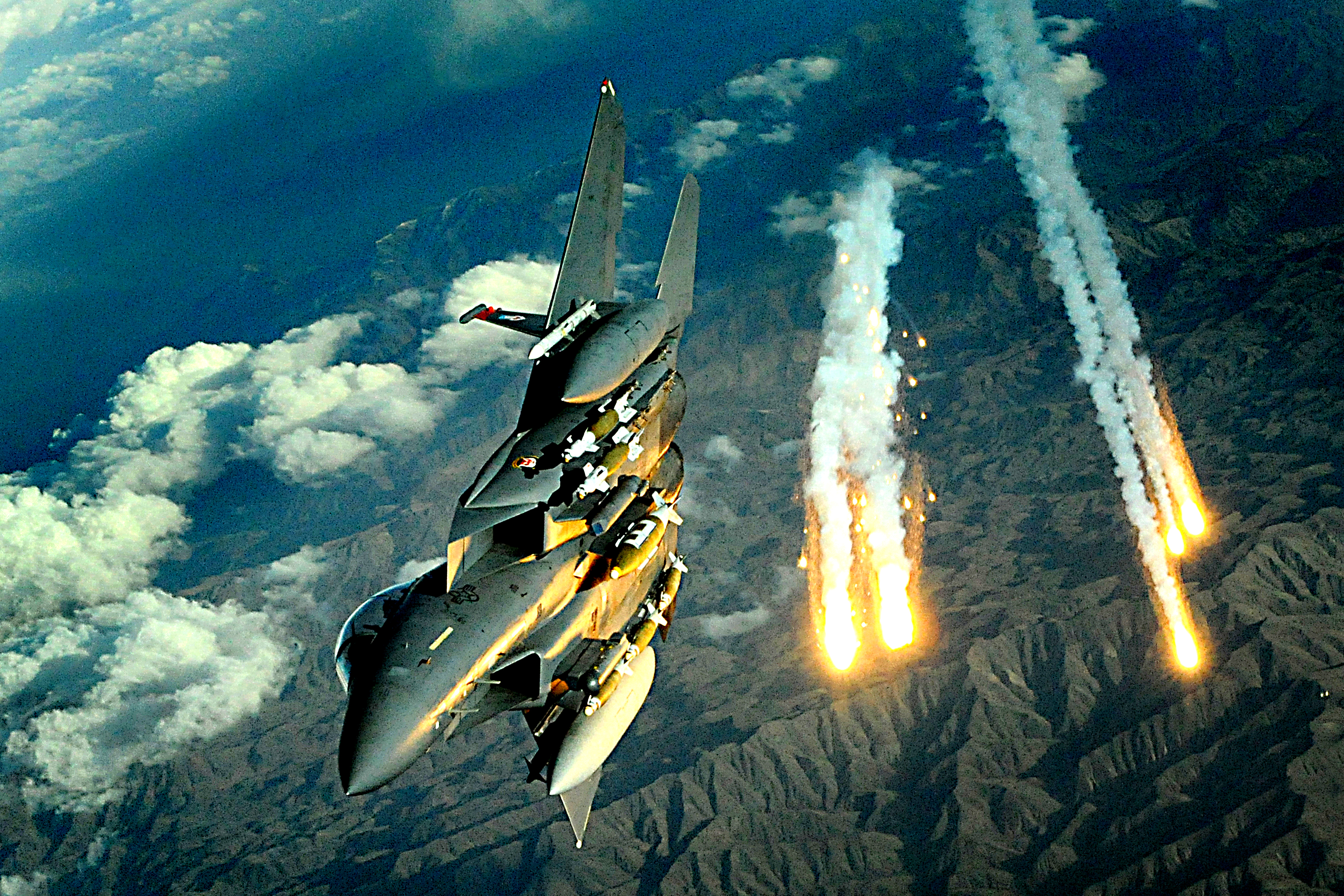 Afghanistan Flyover. A U.S. Air Force F-15E Strike Eagle aircraft from the 391st Expeditionary Fighter Squadron deploys flares during a flight over Afghanistan, Nov. 12, 2008. The squadron is deployed to Bagram Air Base.